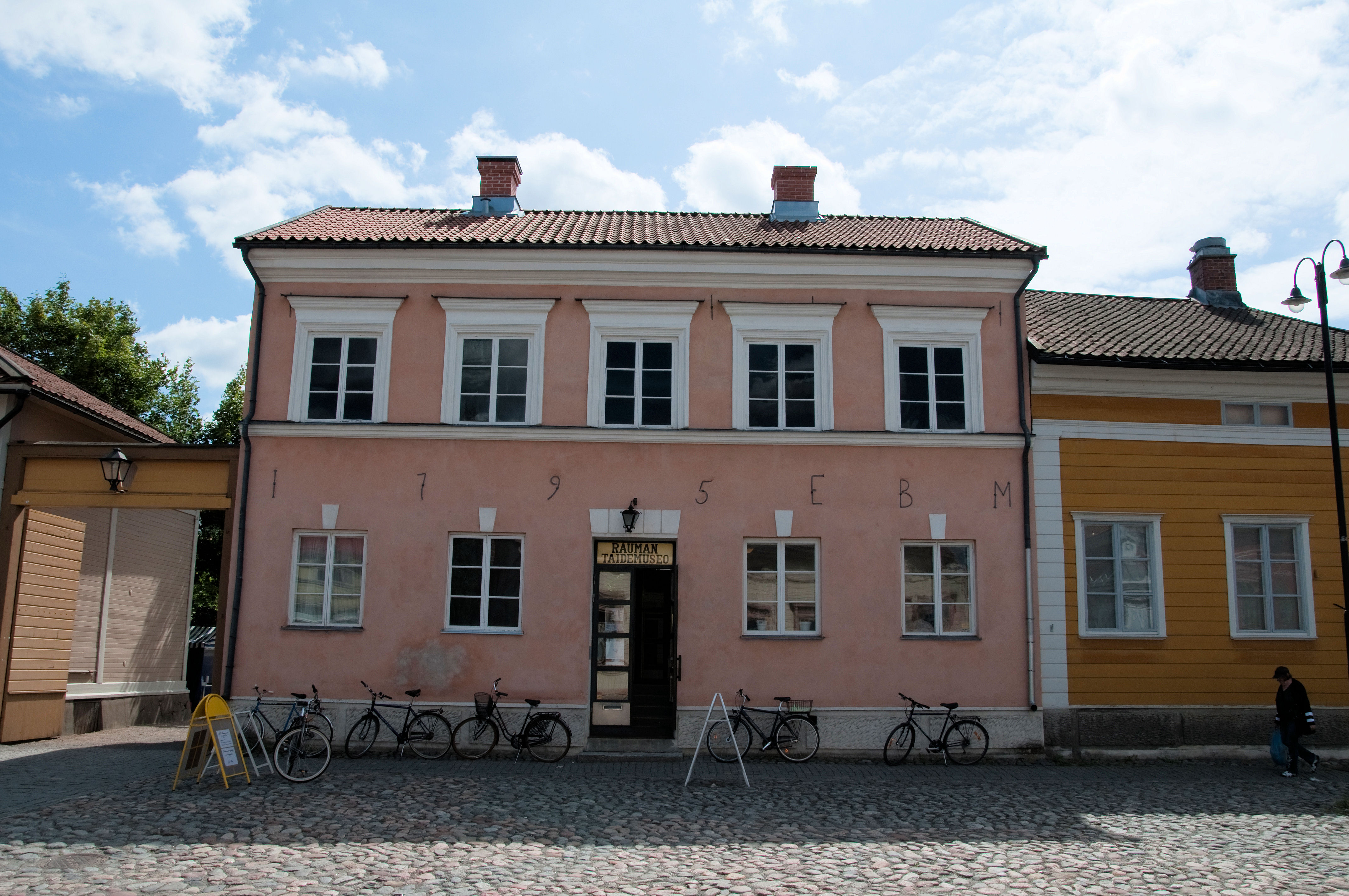 Art museum Rauma